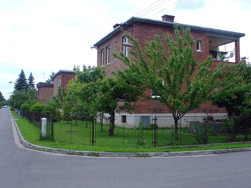 Typical family houses in Otrokovice, Czech Republic